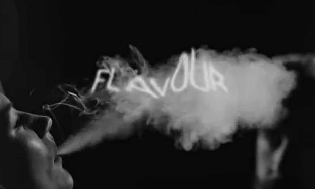 An advert for Mirage e-cigarettes.